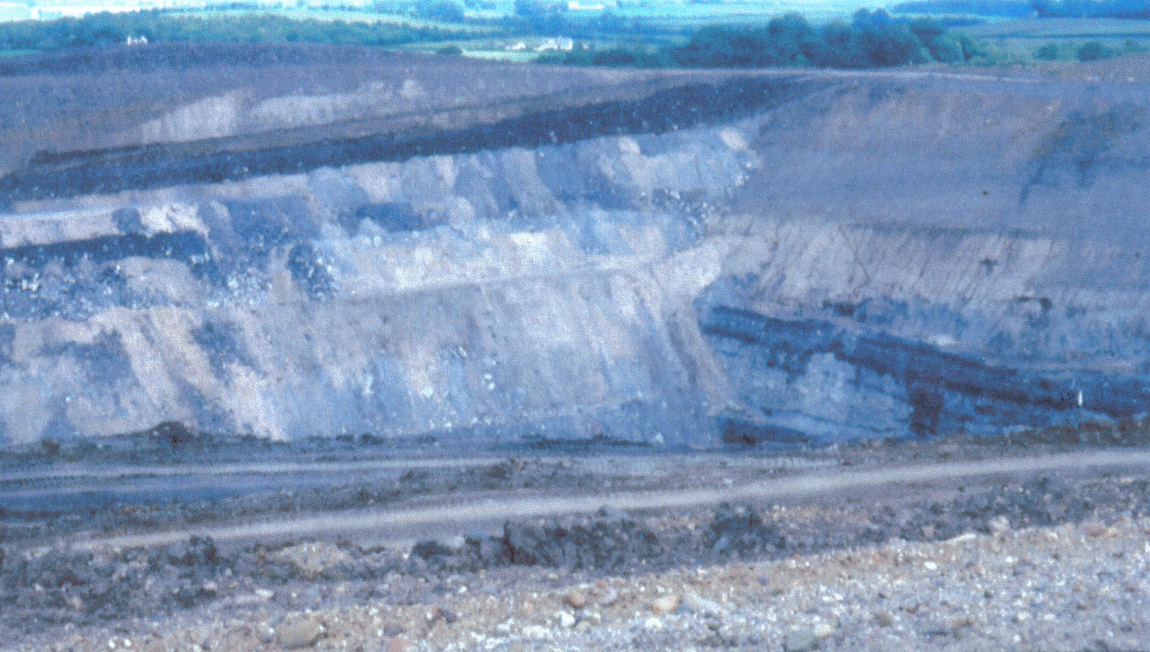 The Soulie Open Cast mine. Irvine. Ayrshire. Scotland.